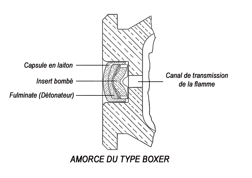 Boxer Primer